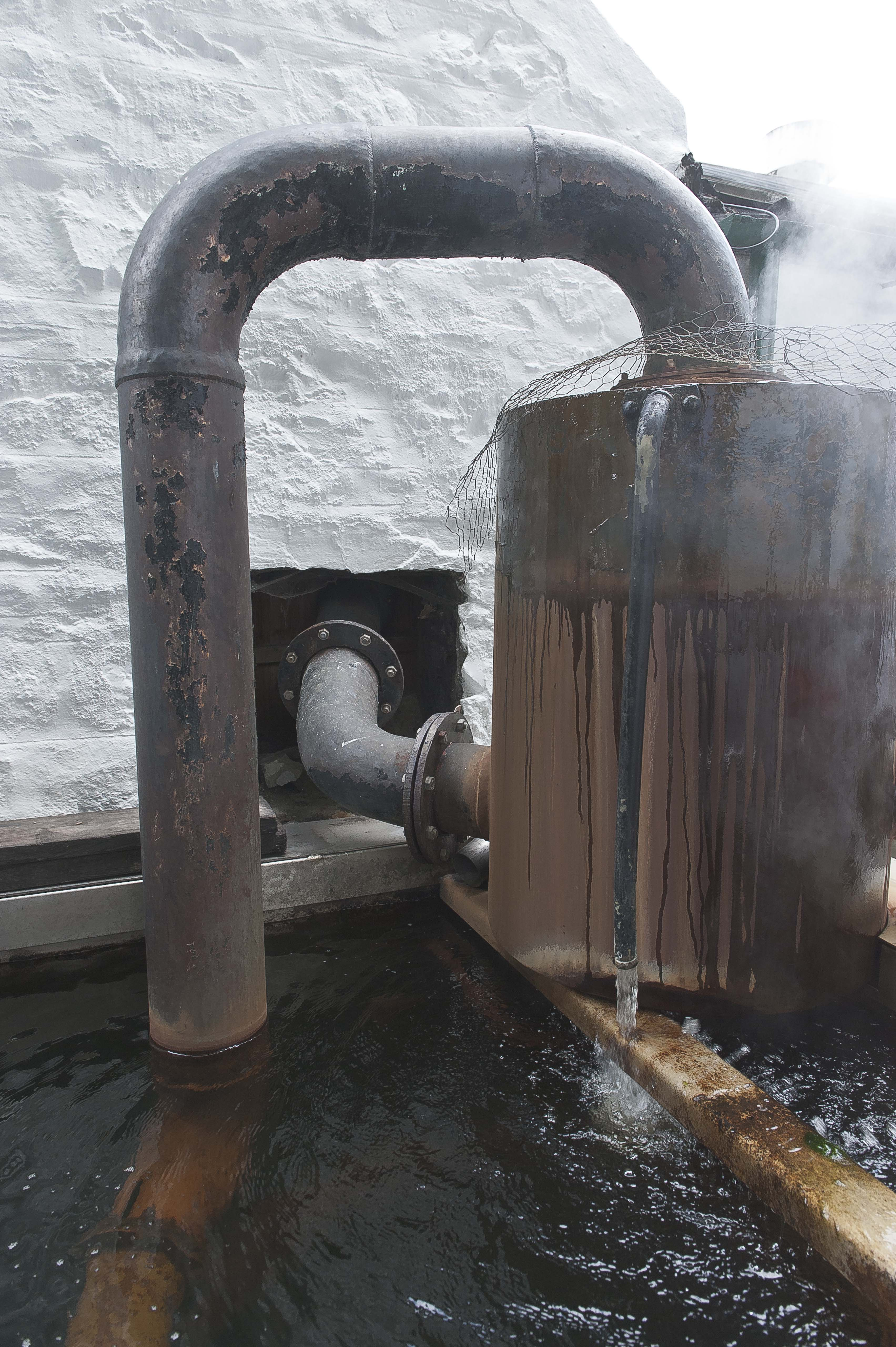 Water chiller, Edradour distillery, Scotland